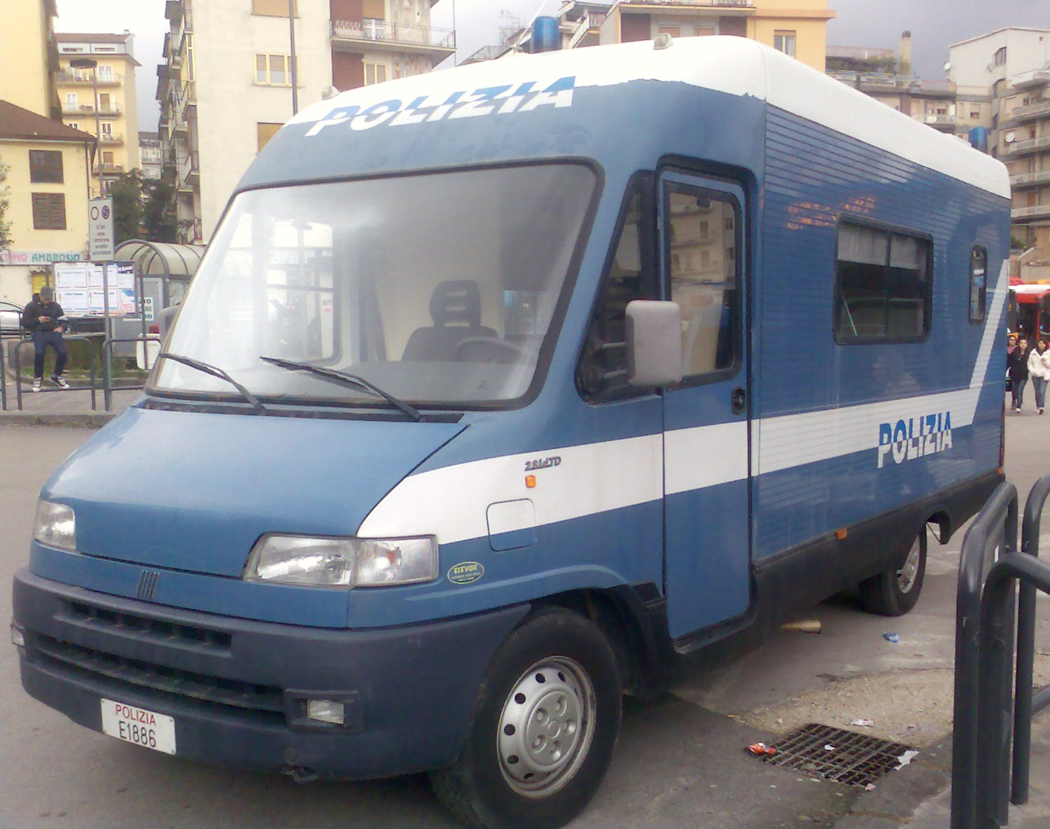 Fiat Ducato Polizia